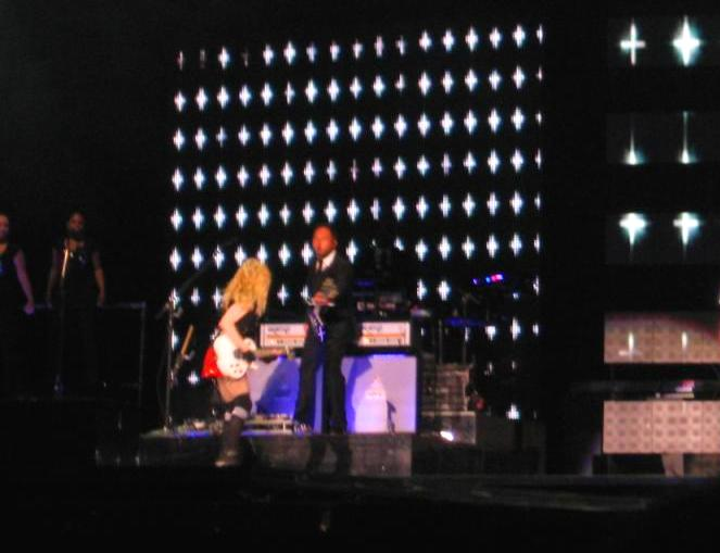 Madonna performing the song "Dress You Up" at the Sticky & Sweet Tour at Tel Aviv, Israel